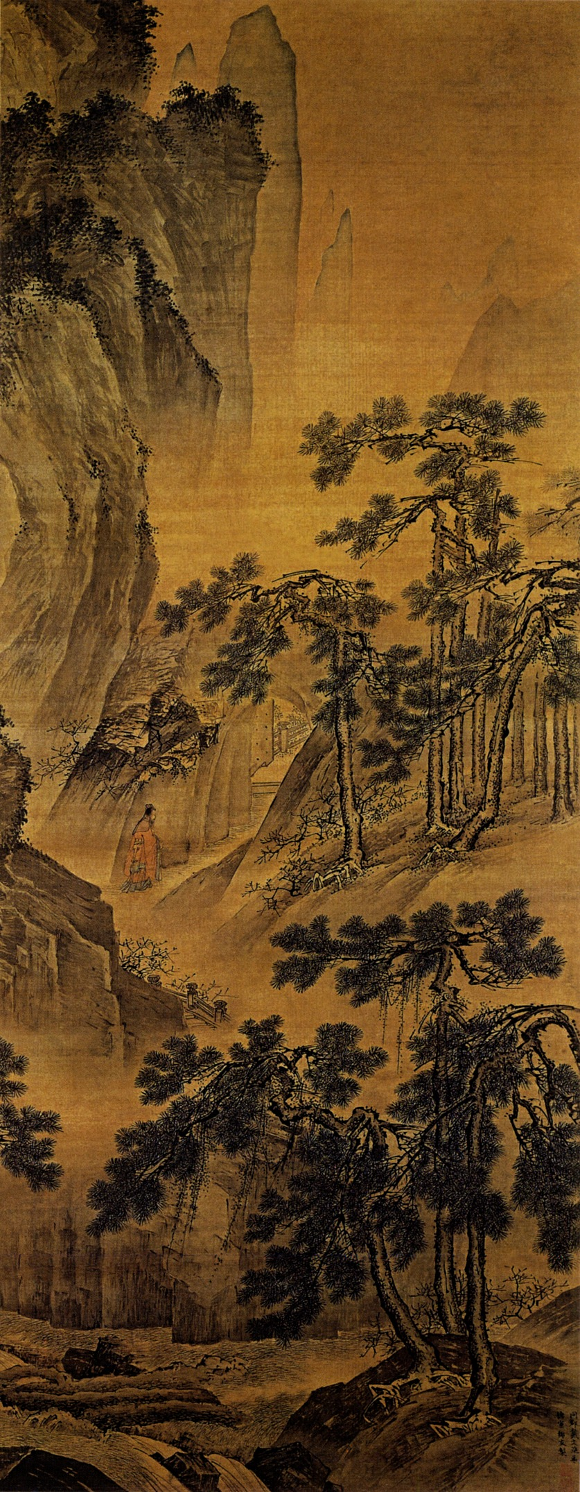 Inquiring of the Dao at the Cave of Paradise, hanging scroll, color on silk, 210.5 x 83 cm. Located at the Palace Museum, Beijing. This painting is based on the story that the Yellow Emperor went out to the Kongtong Mountains to meet with the famous Daoist sage Guangchengzi.